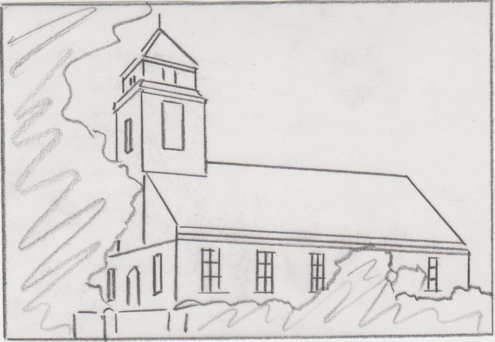 Church in Judtschen (Kanthausen) in East Prussia 1925 (Kaliningrad Oblast in Russia))